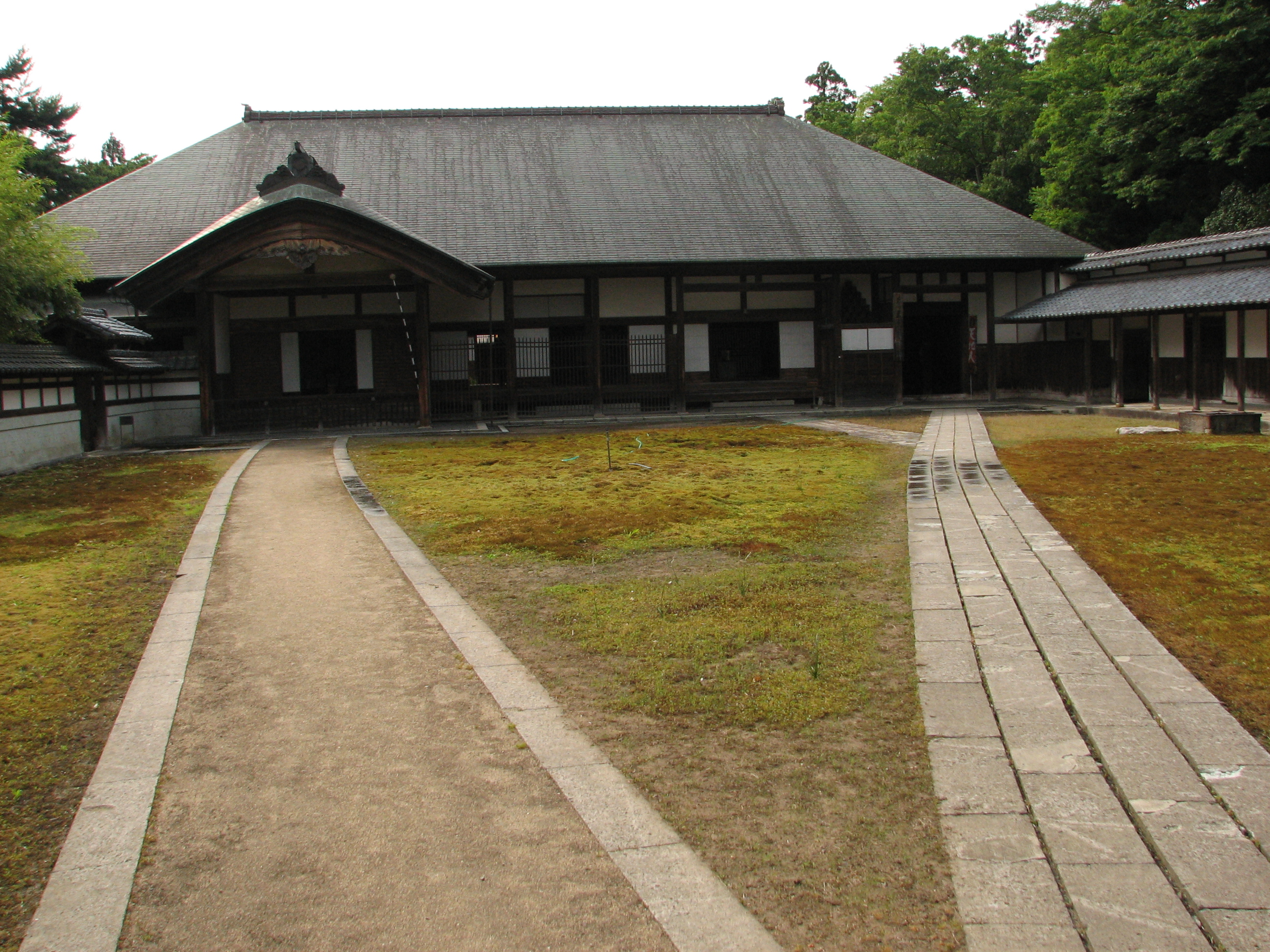 Former Residence of Sasagawa Family in Niigata, Japan